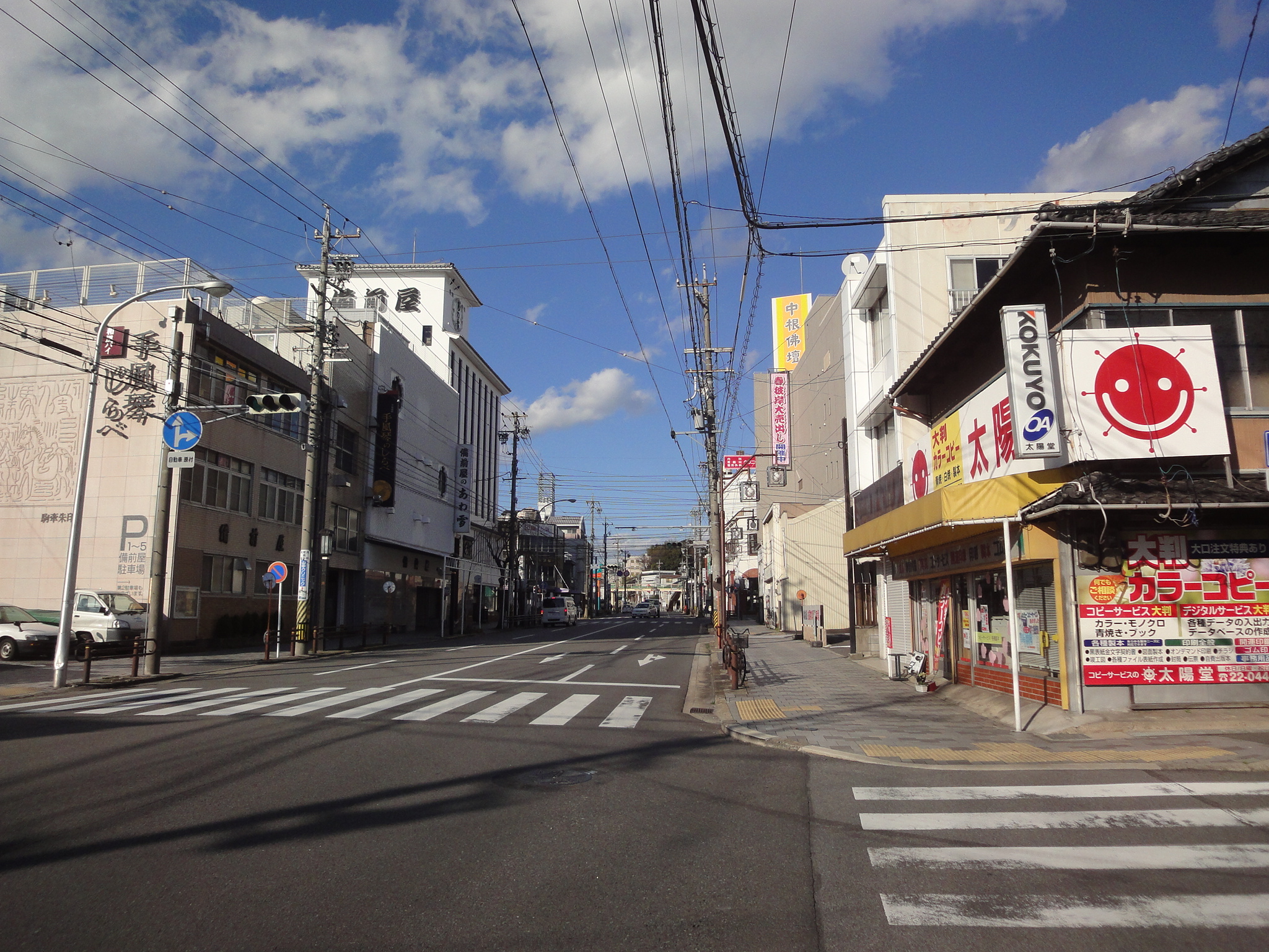 The Modern Road (Modan-doro) in Okazaki City, Aichi Prefecture, Japan